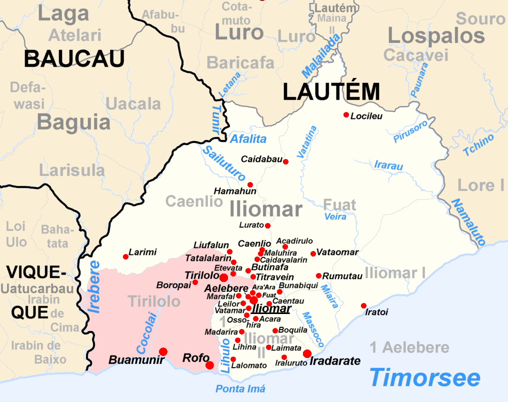 Map of subdistrict of Iliomar, district Lautém, Timor-Leste